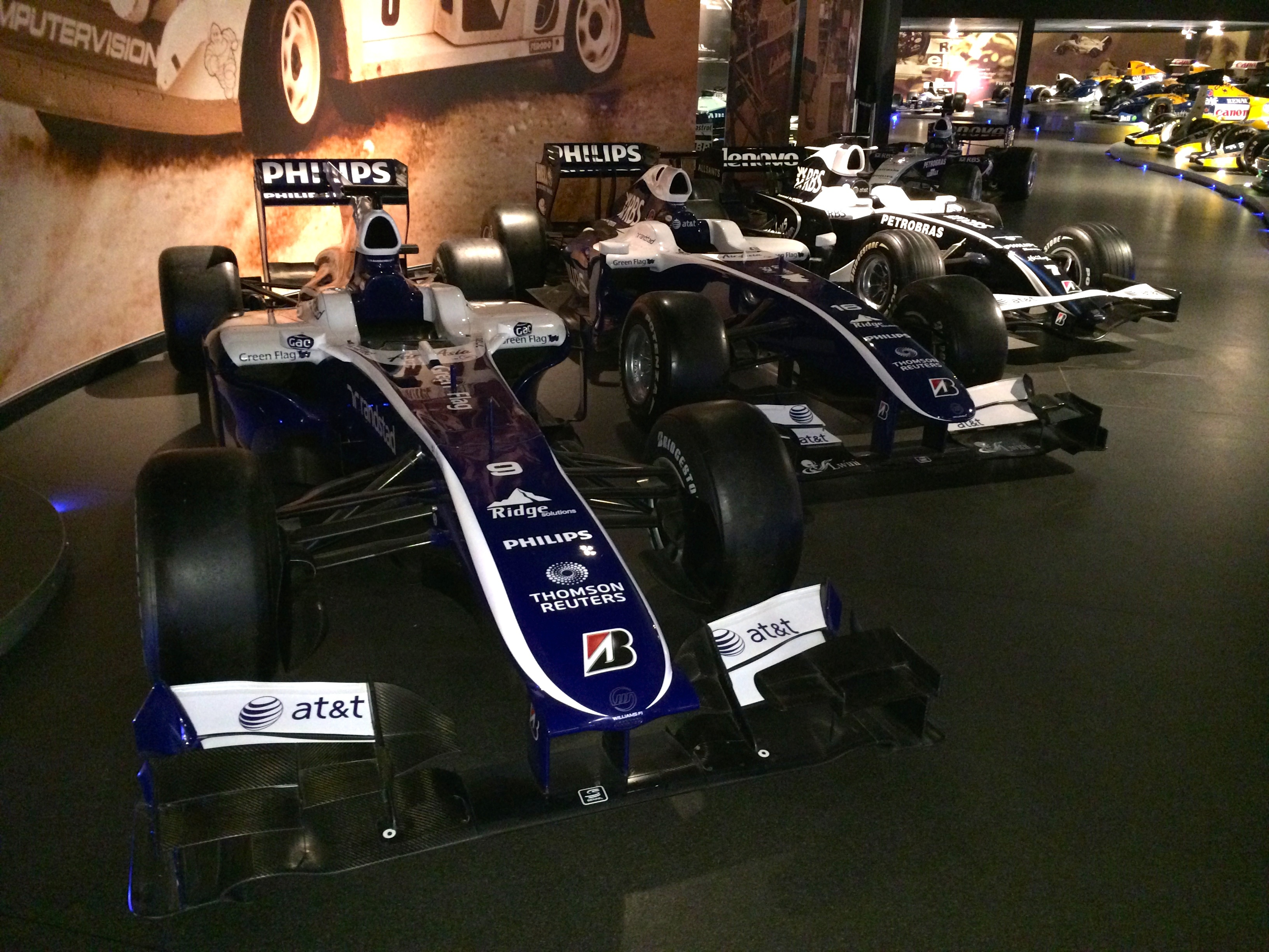 The Williams FW30, FW31 and FW32 on display, used in the 2008, 2009 and 2010 seasons. The 2008 and 2009 cars were driven by Nico Rosberg, while the 2010 car was driven by Rubens Barichello.